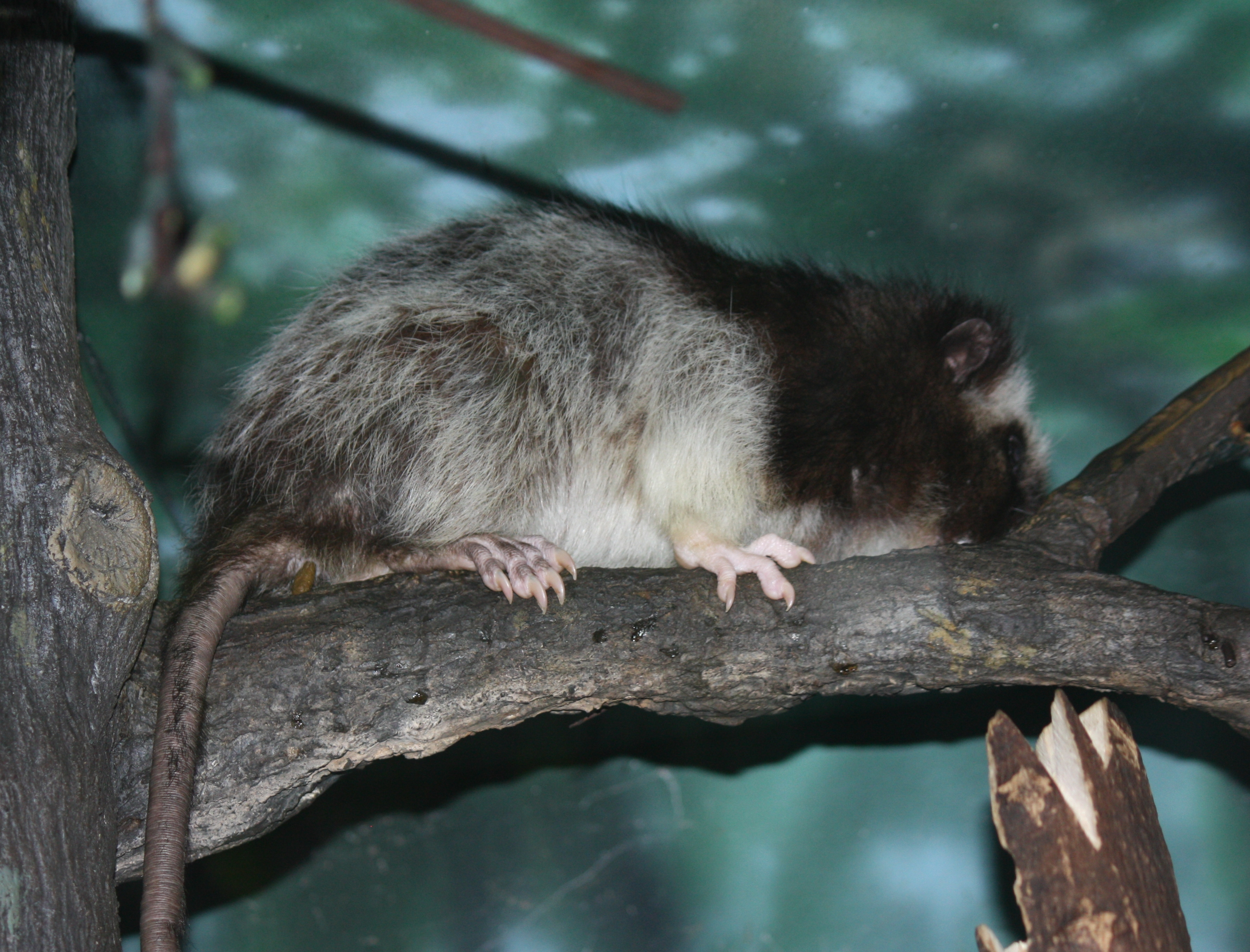 Slender Tailed Cloud Rat Phloeomys pallidus at Cincinnati Zoo